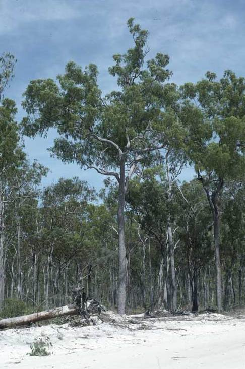 Corymbia nesophila north of Musgrave, Queensland